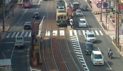 Nagasaki Electric Tramway Nagasaki Daigaku-mae Tram Stop